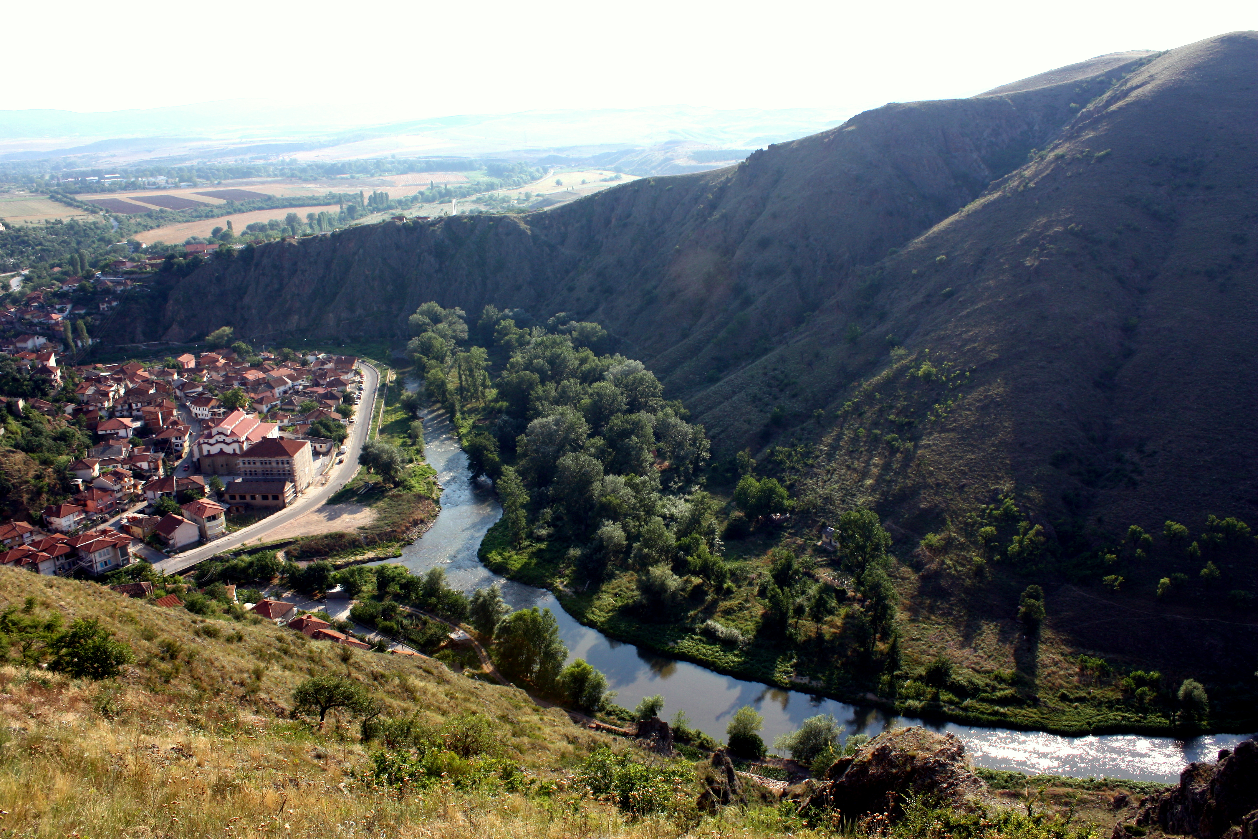 View on Novo Selo, Štip from Isar. Macedonia